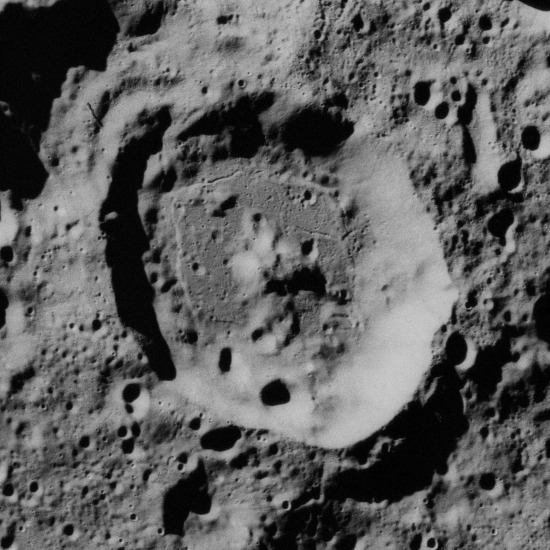 Oblique view of Meggers, on the far side of the moon. North is in upper right.